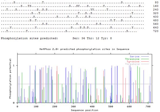 Predicted post translational modified sites of KIAA1958. Substantial amount of serine phosphorylations.